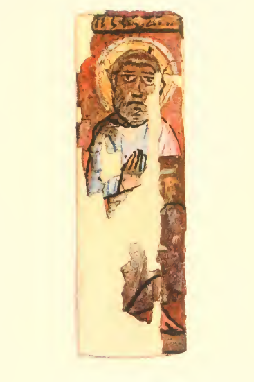 Nubian wood painting depicting a Christian saint. Early medieval, possibly 7th century.